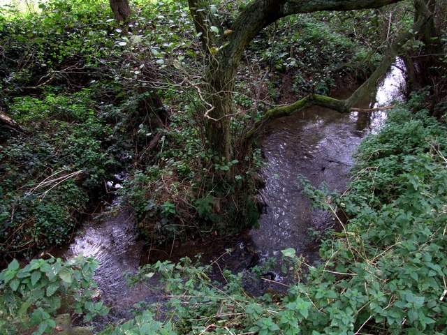 Brook at Somersby The brook about to enter the River Lymn.